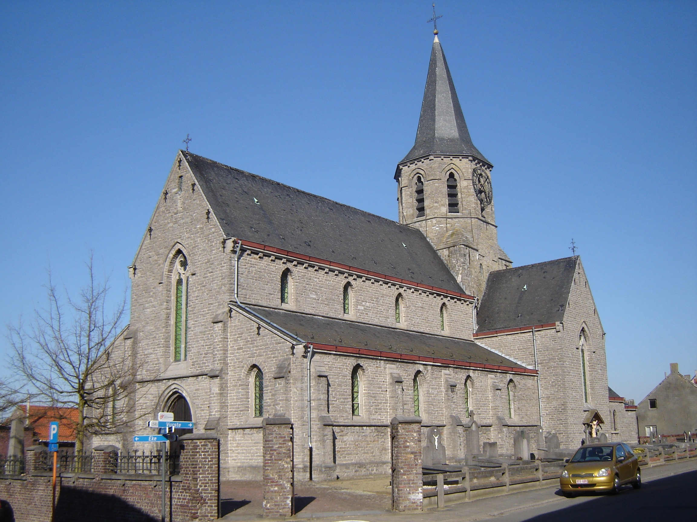 Sint-Pietersbandenkerk (Church of Saint Peter in chains) in Semmerzake. Semmerzake, Gavere, East Flanders, Belgium